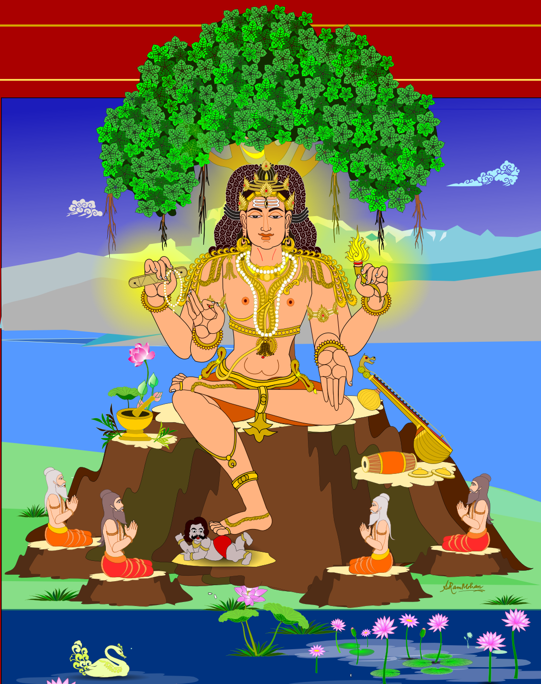 dakshinaamurthy